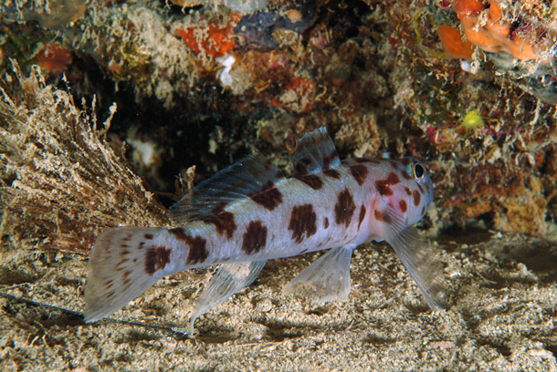 Thorogobius ephippiatus photographed in Tuscany (Italy). Photo by Stefano Guerrieri